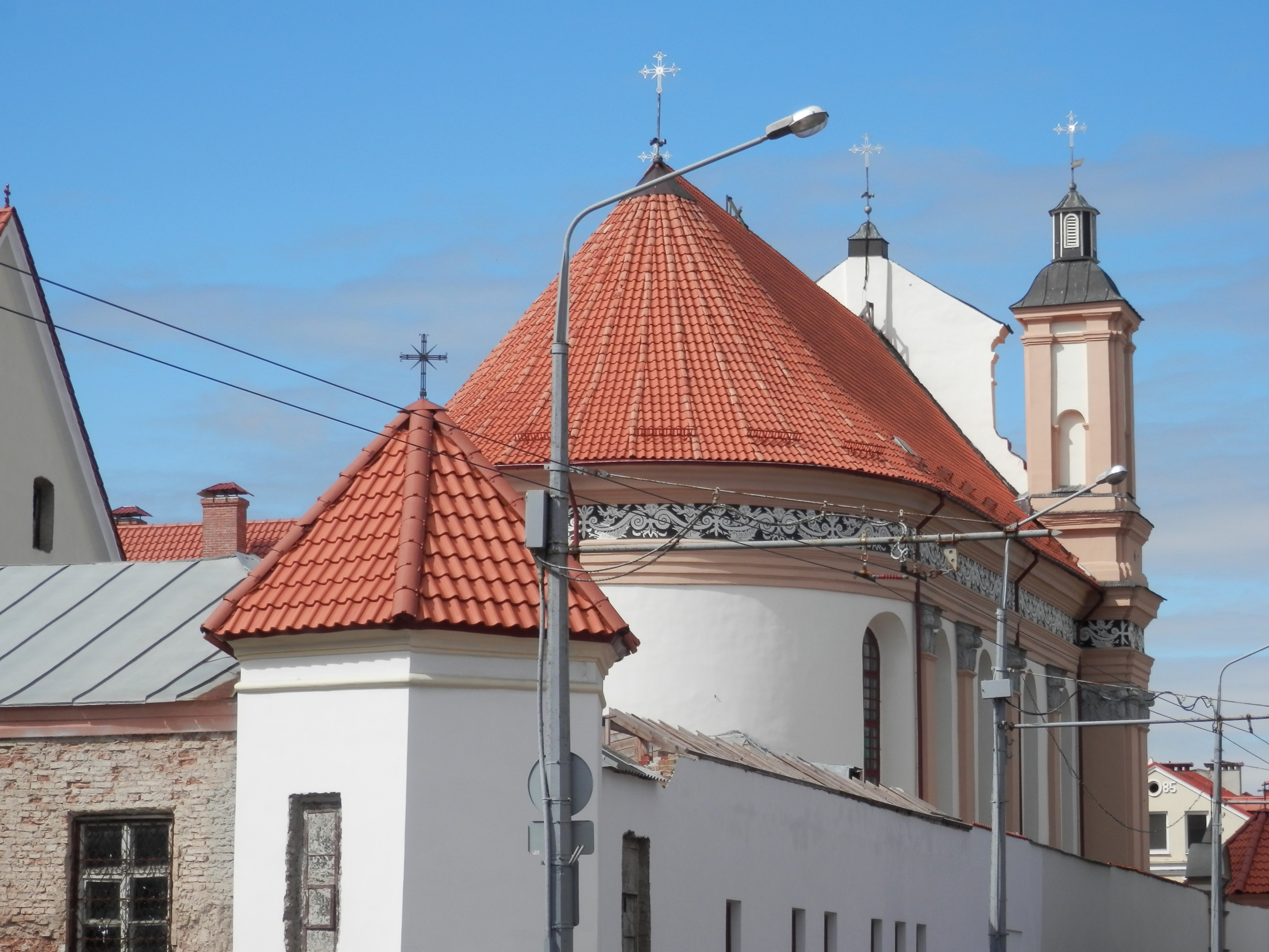 Church of the Annunciation of the Virgin Mary, Hrodna